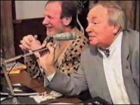 Poeti Andrei Voznesenskij i Konstantin kedrov v Centralnom Dome Literatorov Konstantin kedrov (talk) 18:27, 15 August 2009 (UTC)